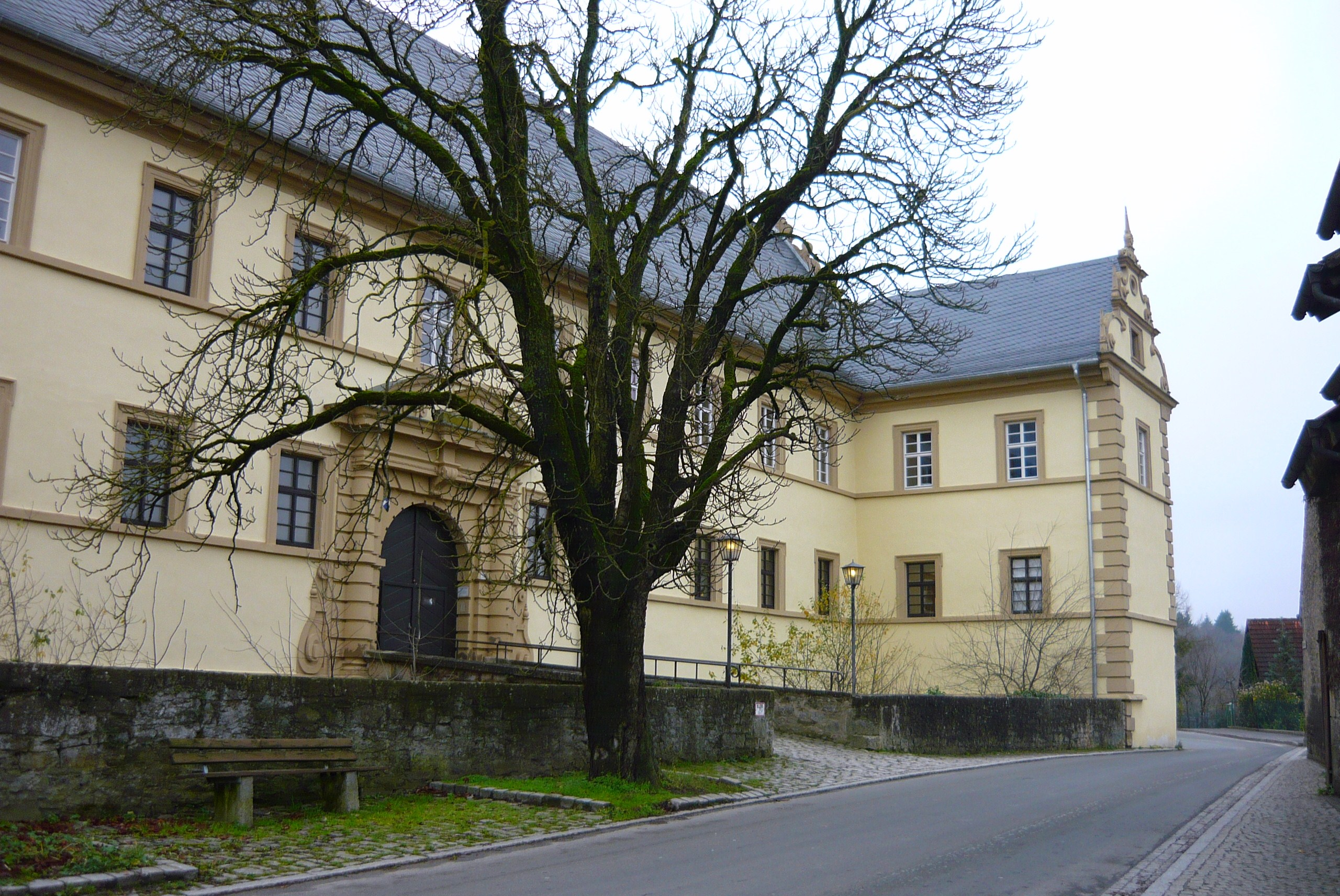 The castle in Aub